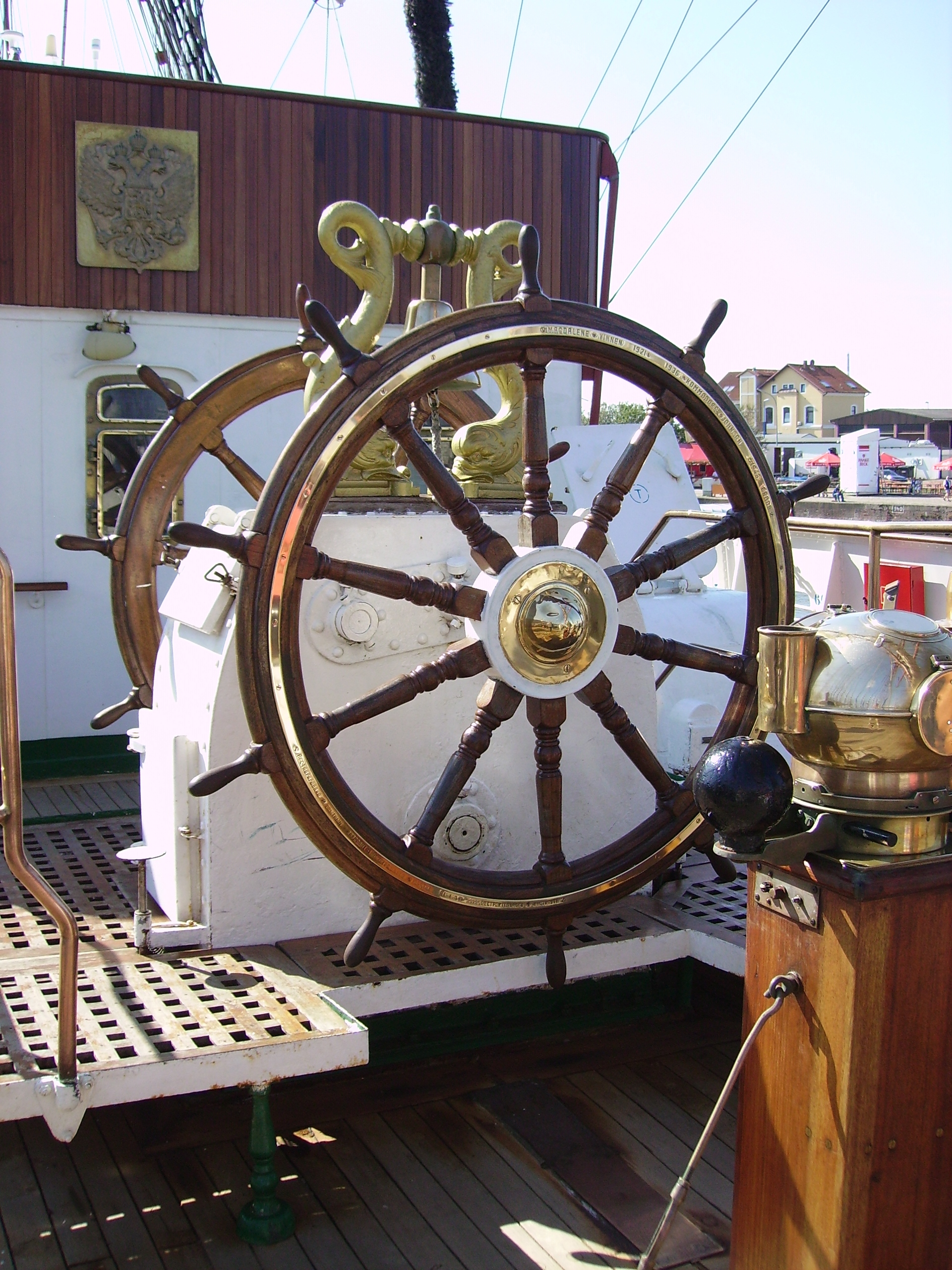 The steering wheel of the Russian sailing ship Sedov